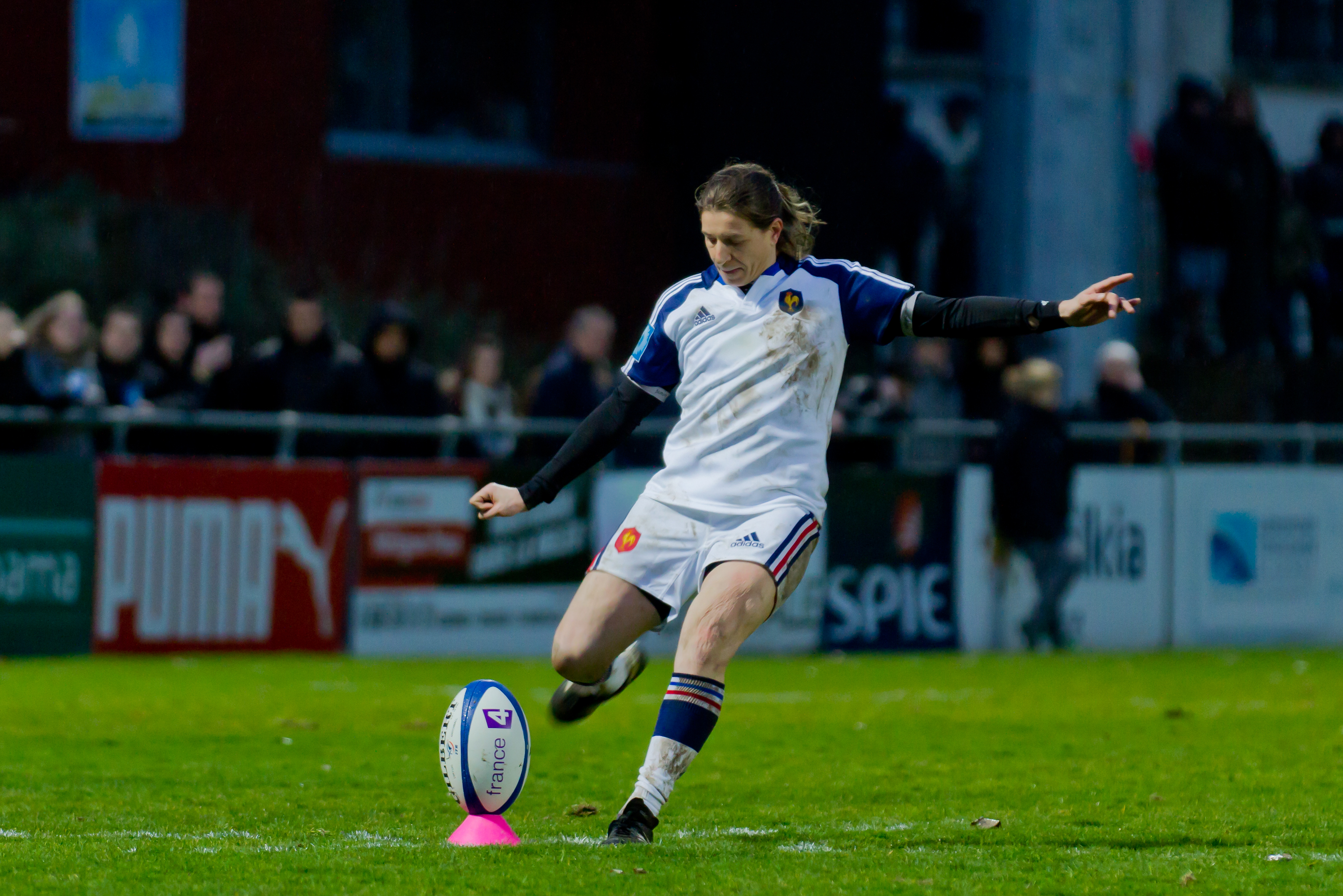 Christelle Le Duff kicking a conversion during french victory over Italy in the second day of Rugby Women 6 Nations tournament 2014.